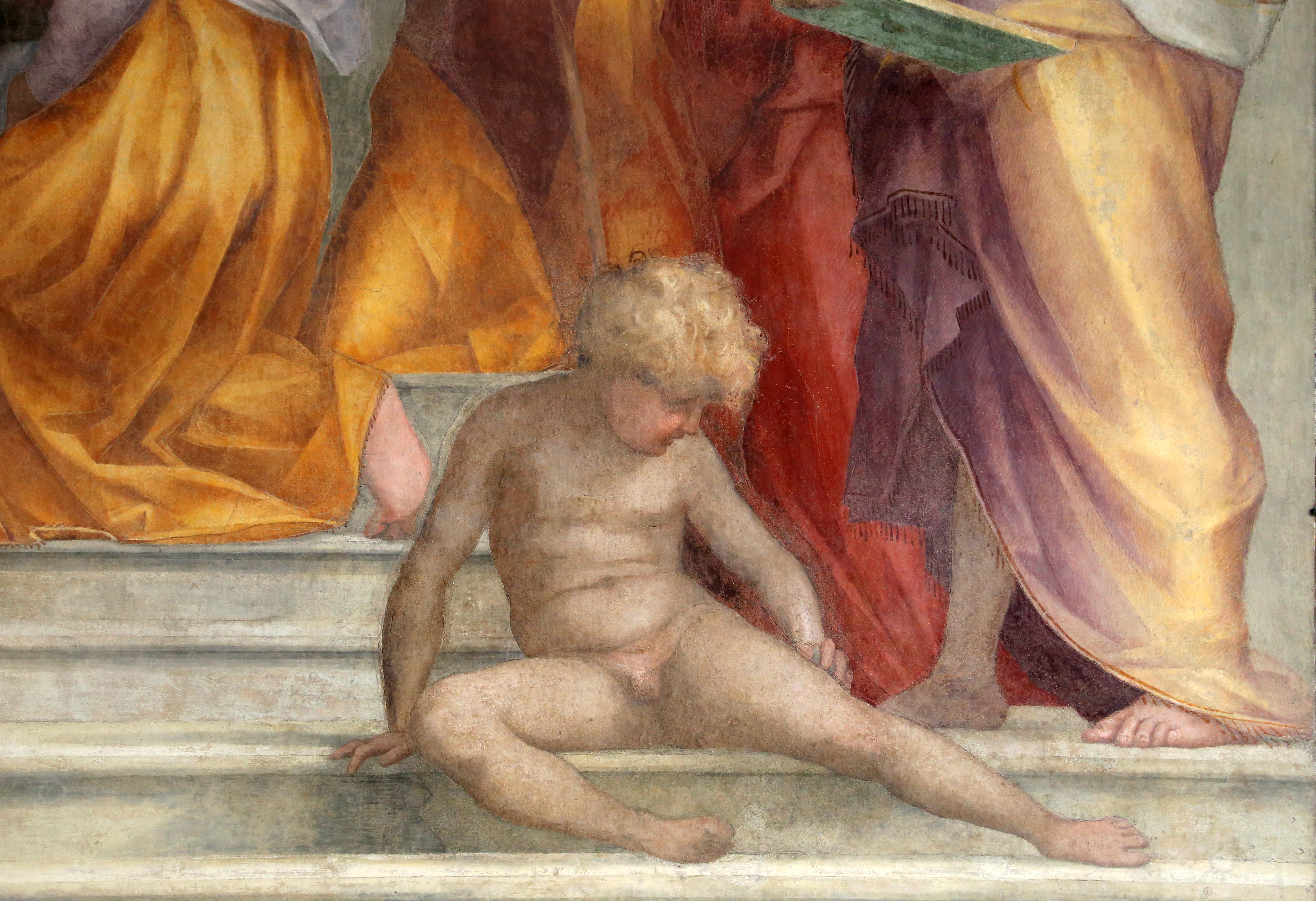 Chiostro dei Voti - Visitation by Pontormo